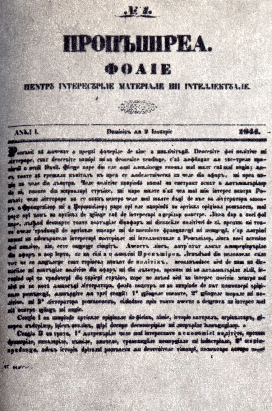 Propăşirea magazine, first issueМолдовеняскэ: Пропъшiреа